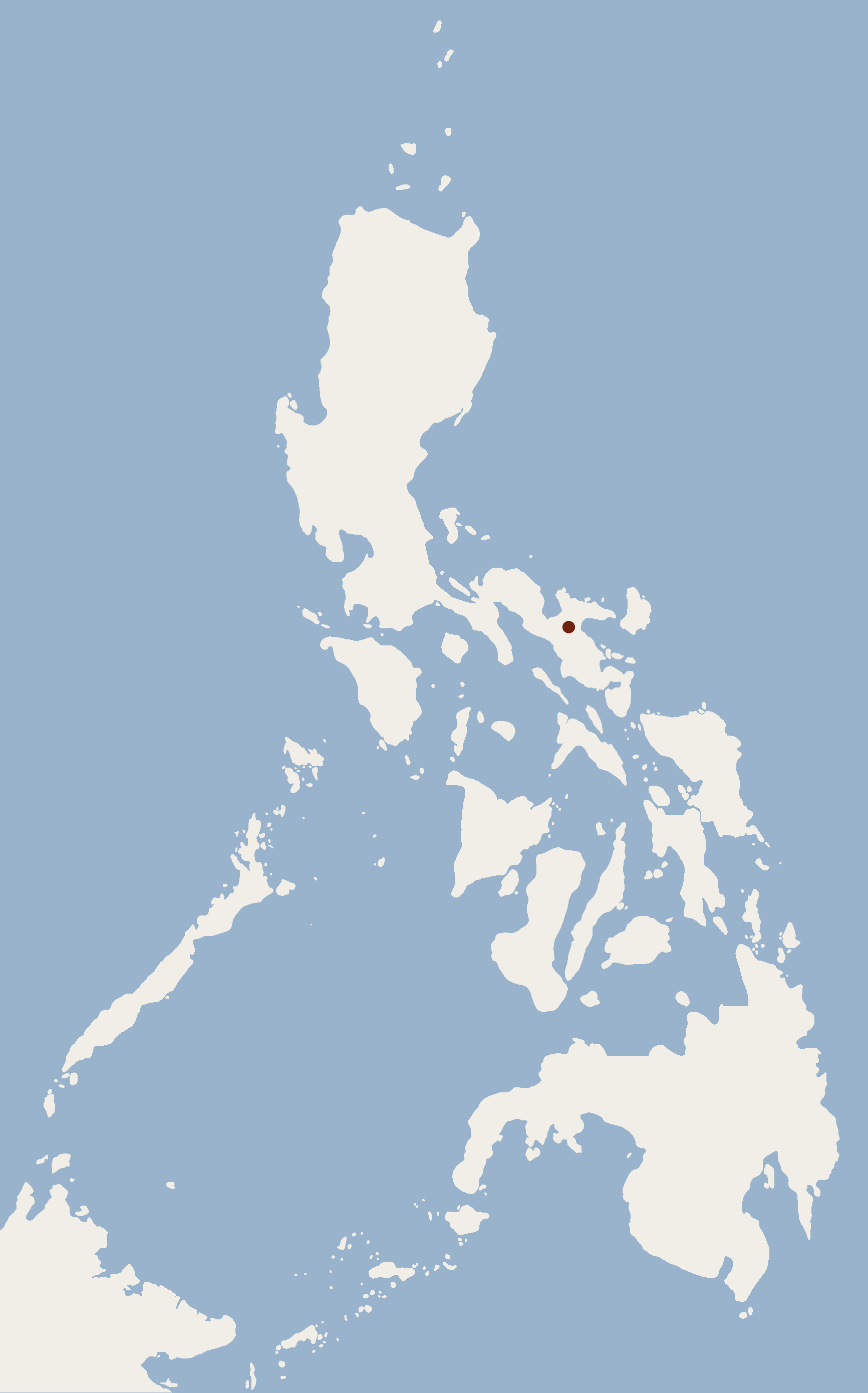 Location of the natural park of Mount Isarog. The mountain has several endemic species of Muridae, including the Isarog striped shrew-rat (Chrotomys gonzalesi), Mount Isarog shrew mouse (Archboldomys luzonensis) and the Mount Isarog hairy-tailed rat (Batomys uragon). This map can be used to indicate their location.